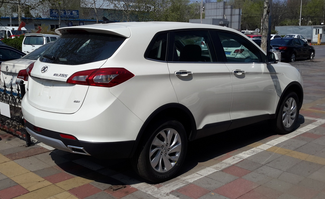 Senova X65 photographed in Beijing, China.